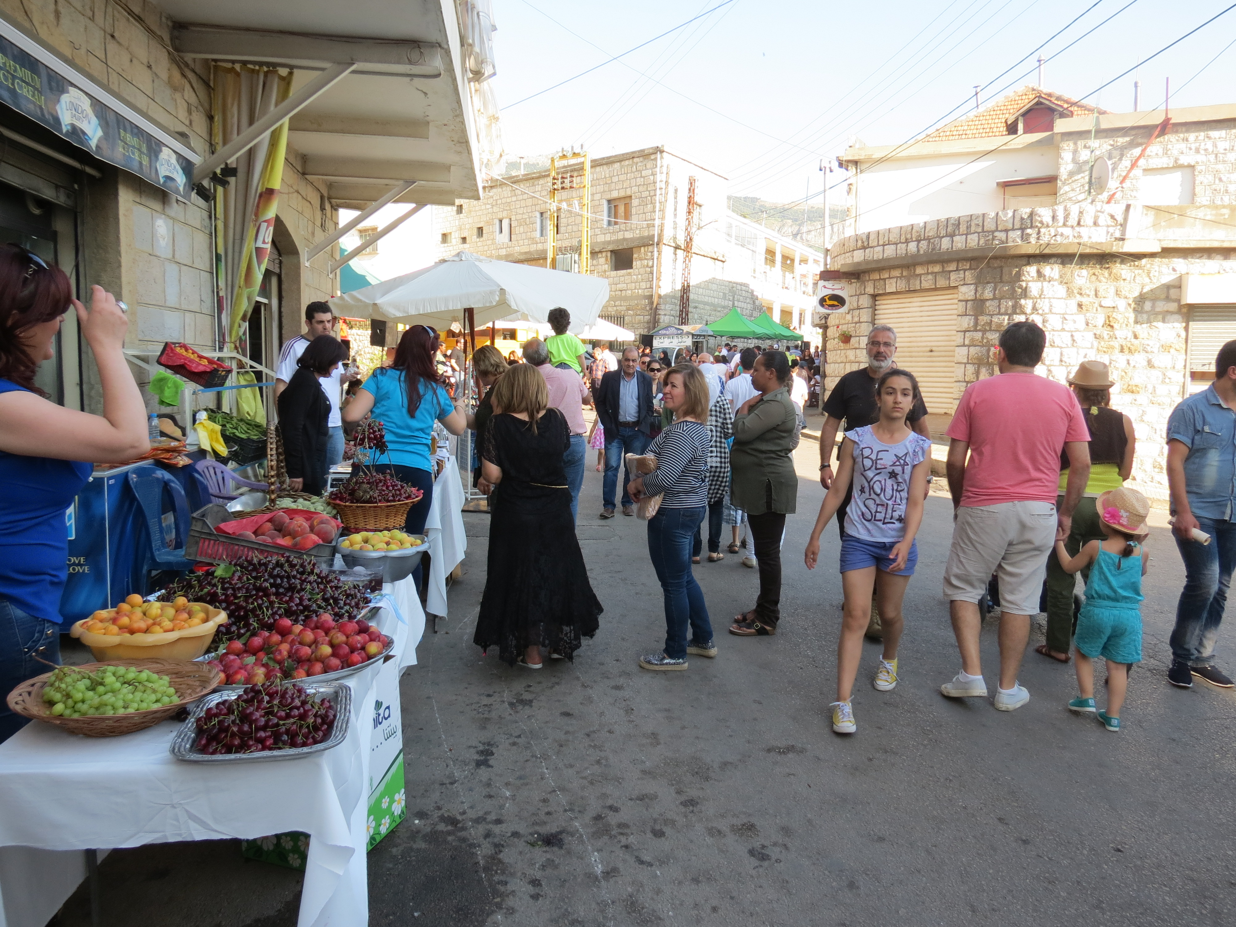 Cherry Festival in Hammana in Lebanon, 2016